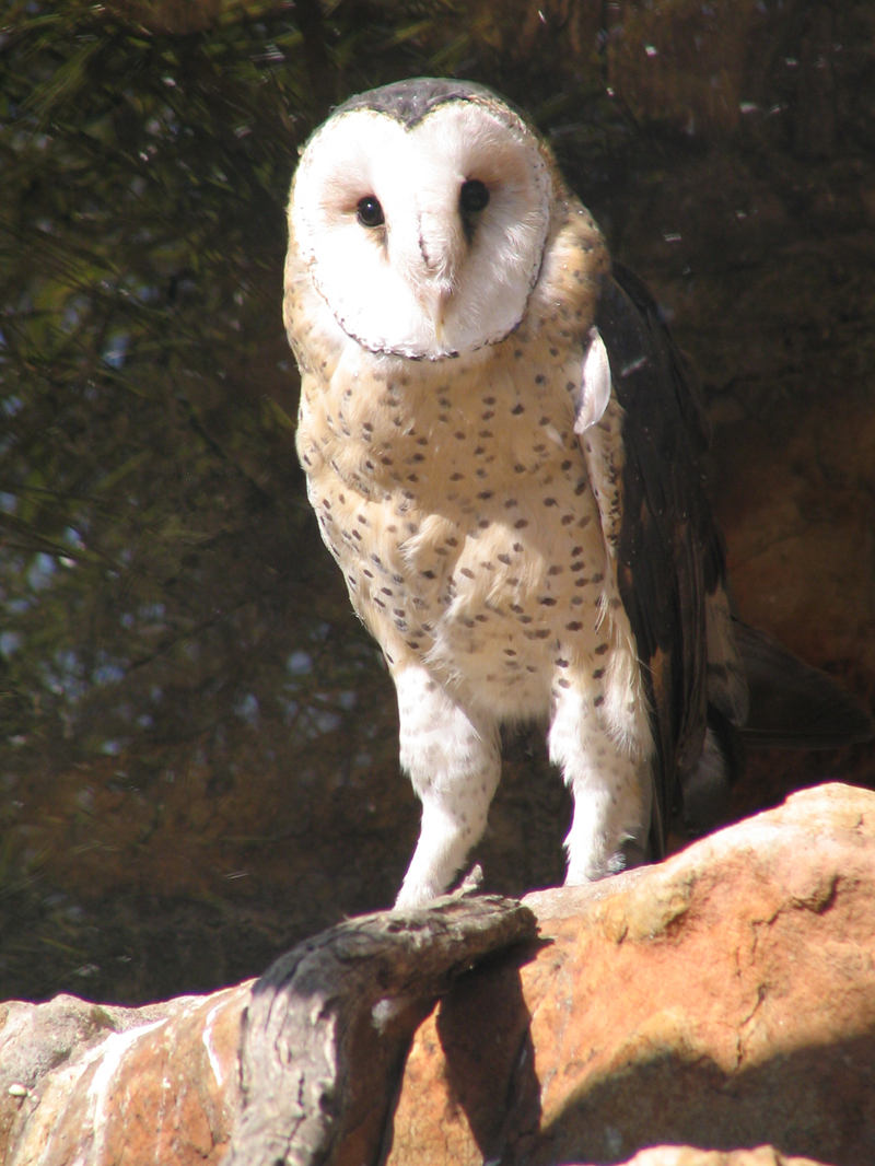 Adult African Grass Owl - picture taken at Johannesburg zoo